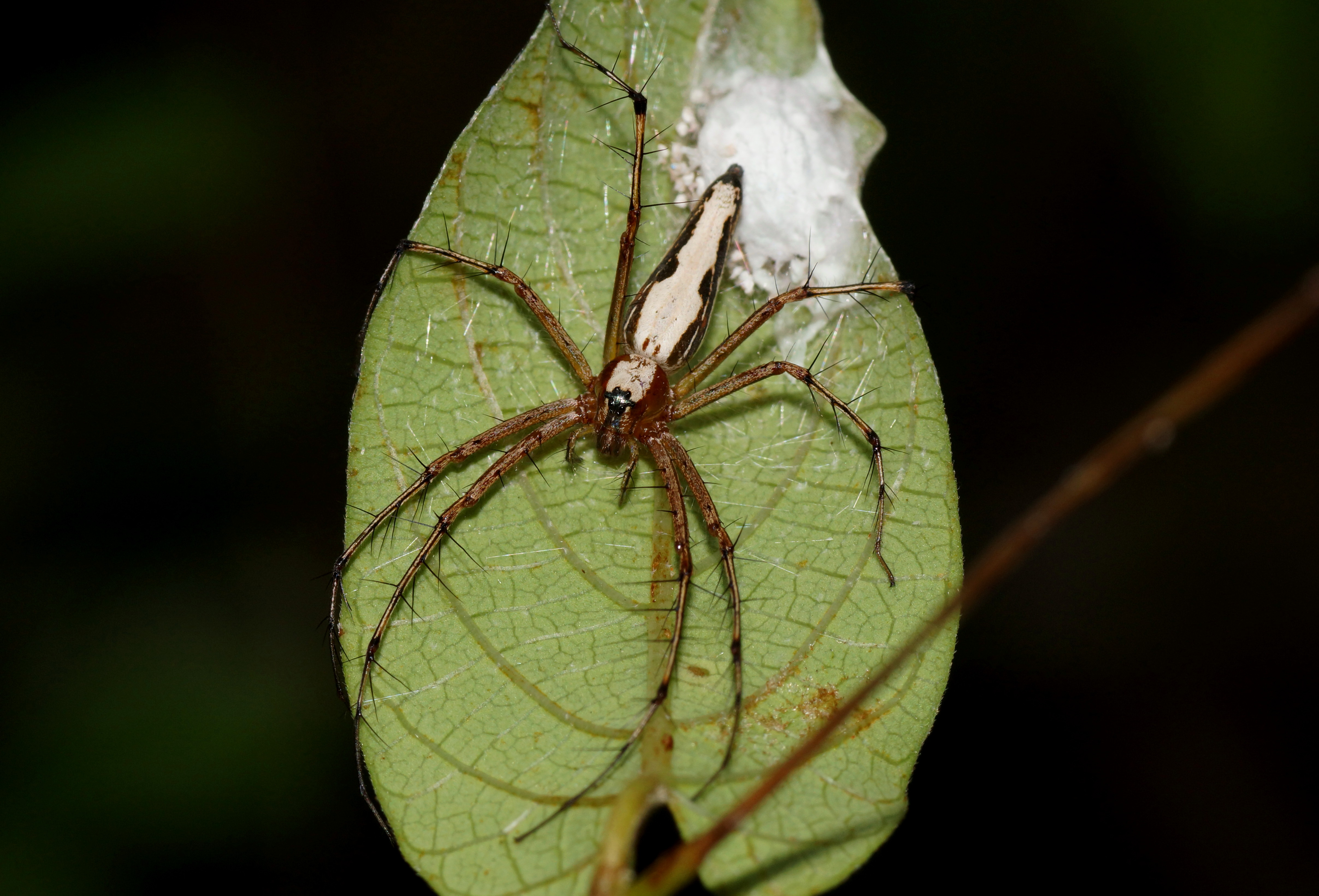 Oxyopes shweta guarding eggs